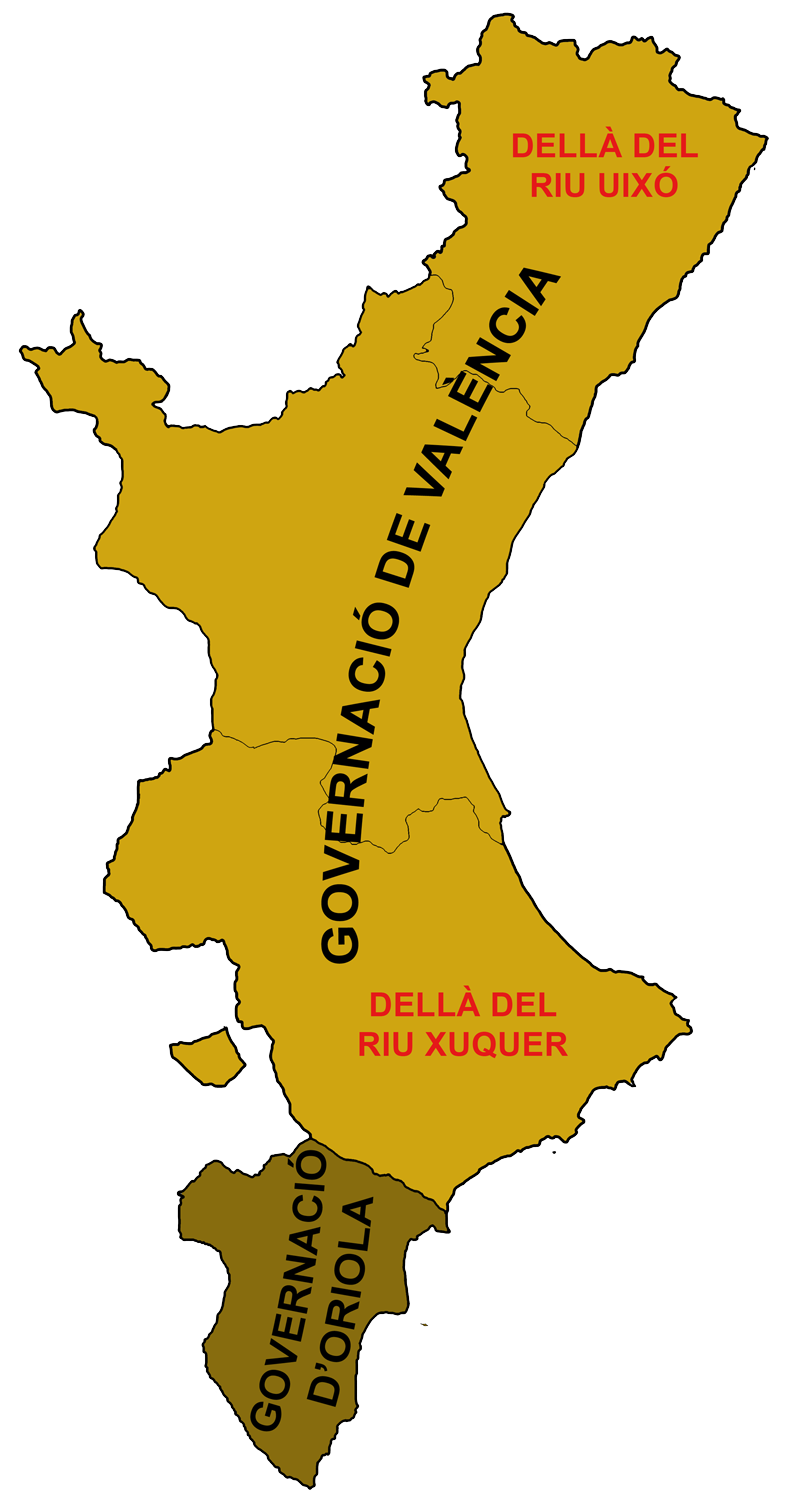 Kingdom of valencia